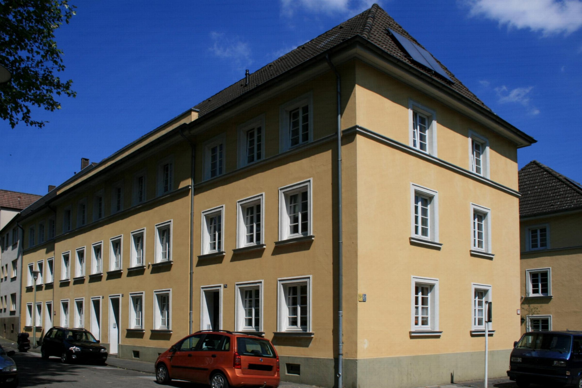 Cultural heritage monument No. R 062 in Mönchengladbach